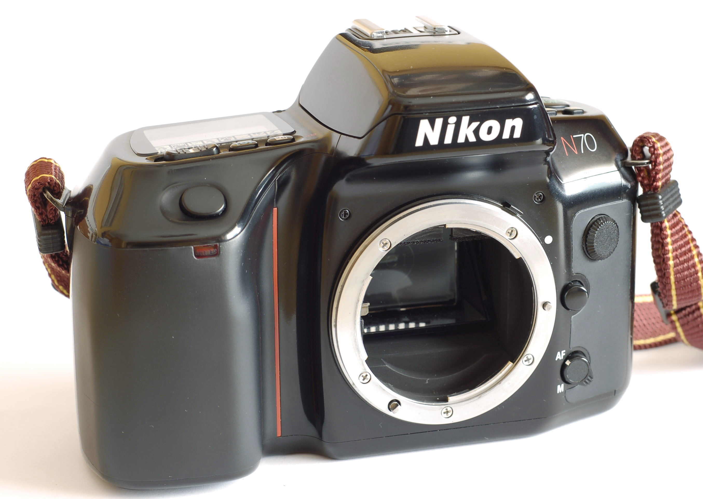 Nikon N70 photo